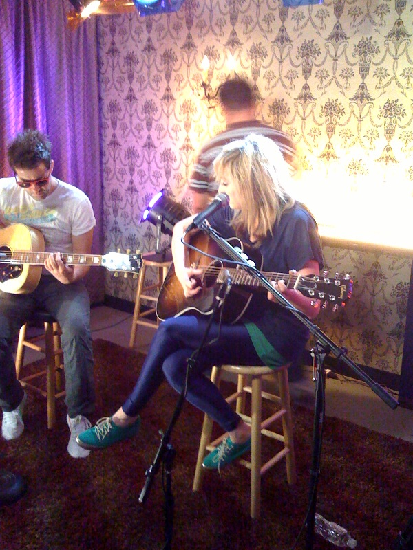 Ting Tings in Studio